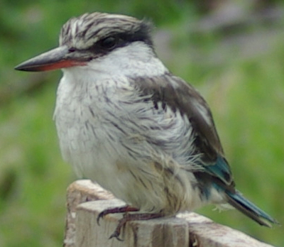 Adult Striped Kingfisher, Halcyon chelicuti chelicuti, probably male, Sweetwaters Game Reserve, Kenya. The time stamp is 10 hours too early.